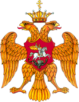 Coat of Arms of Russia in mid-16th centyry